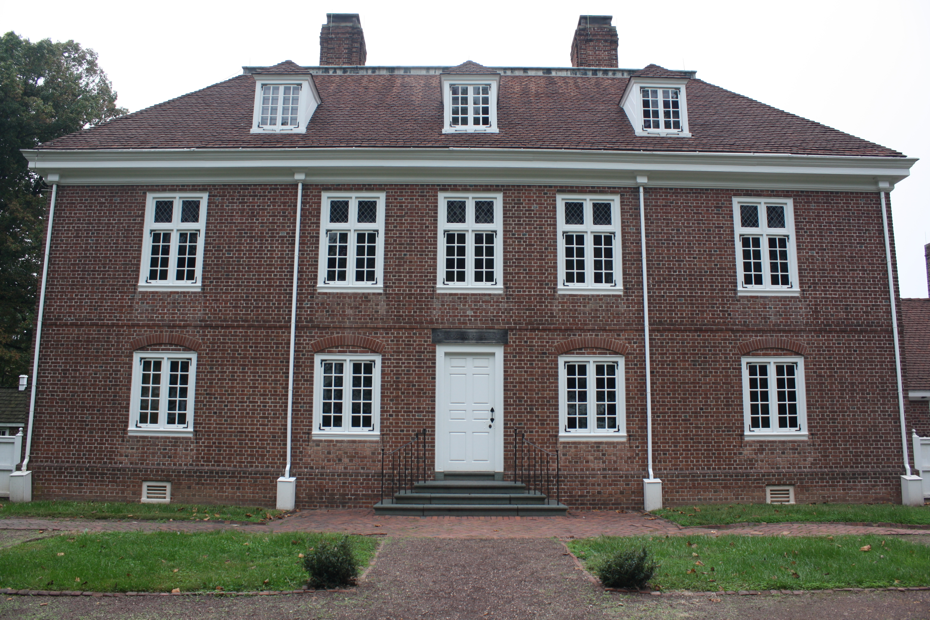 Pennsbury Manor is a recreated colonial estate in Falls Township, Bucks County, Pennsylvania. From 1683 to 1701, it was the American home of William Penn, founder and proprietor of the Colony of Pennsylvania. The estate and its buildings were recreated in the 1930s. Object location40° 07′ 59.88″ N, 74° 46′ 12″ W